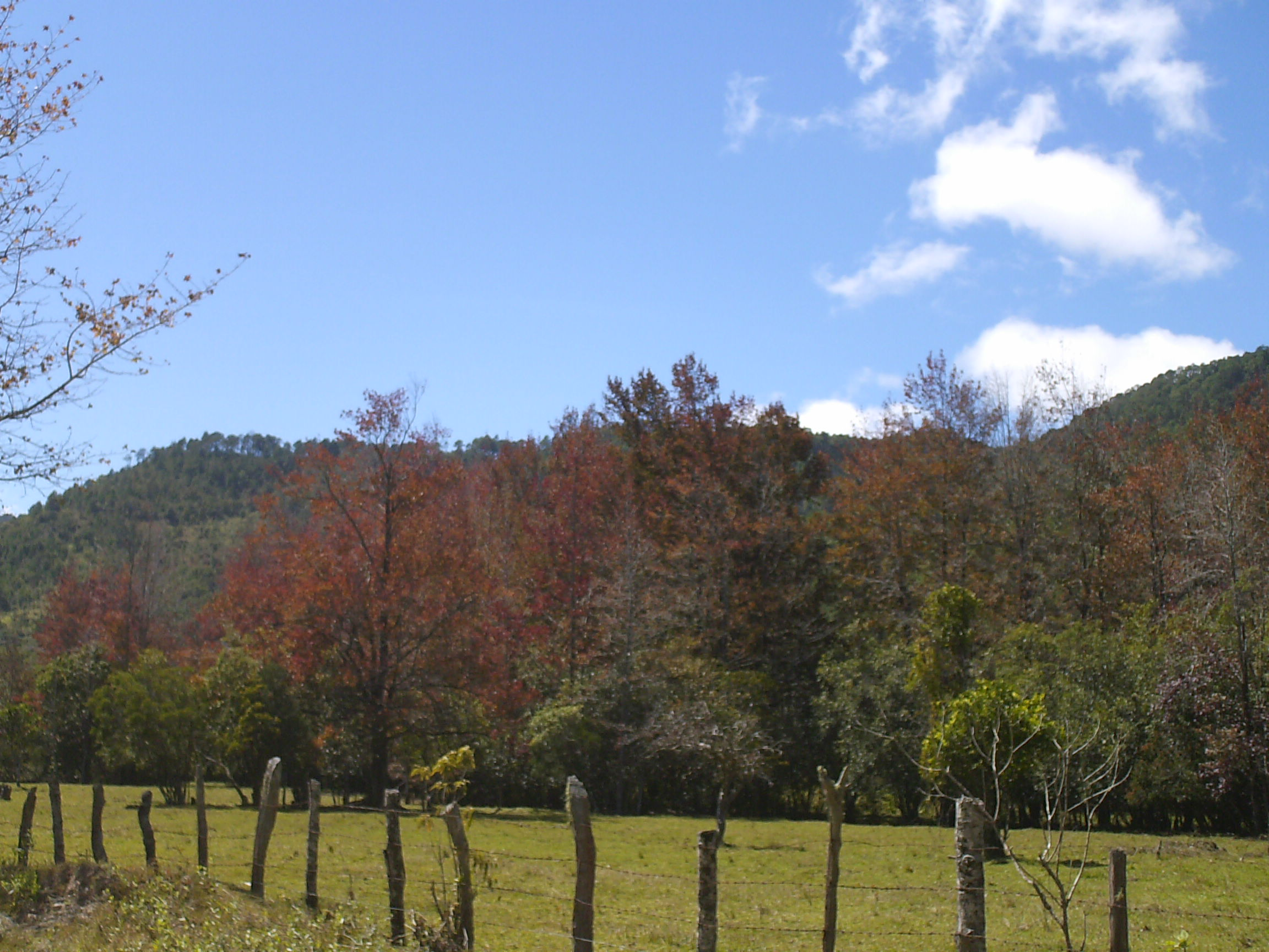 Santa Cruz, municipality in the Honduran department of Lempira.